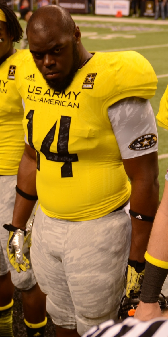 The U.S. Army All-American Bowl was held at the Alamodome in San Antonio on Jan. 5, 2013. The U.S. Army All-American Bowl is sponsored by the U.S. Army. (U.S. Army Reserve photo by Pfc. Victor Blanco, 205th Public Affairs Operations Center)